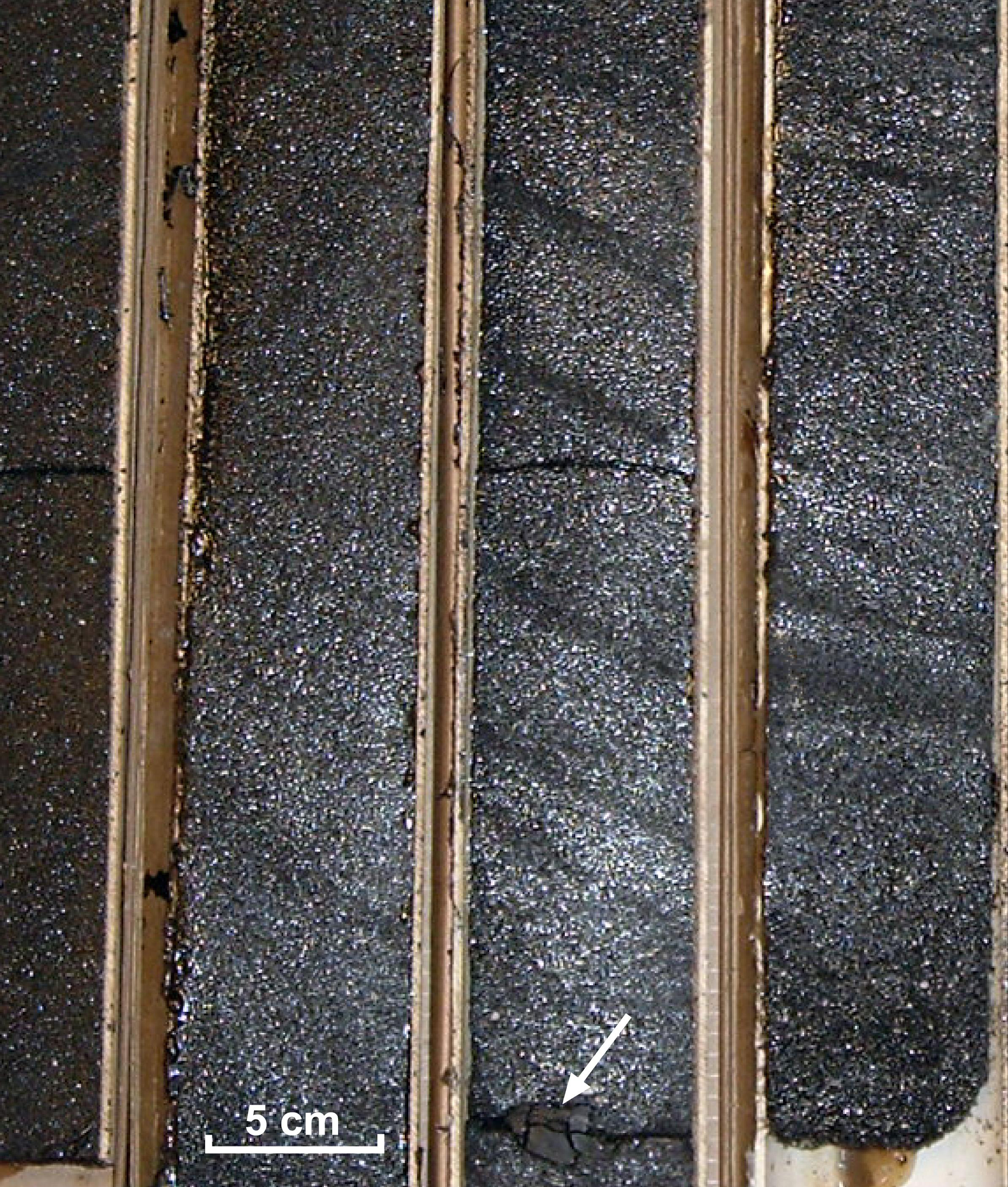 Athabasca oil sand as seen in drill cores. Arrow shows a fragment of fossil wood.